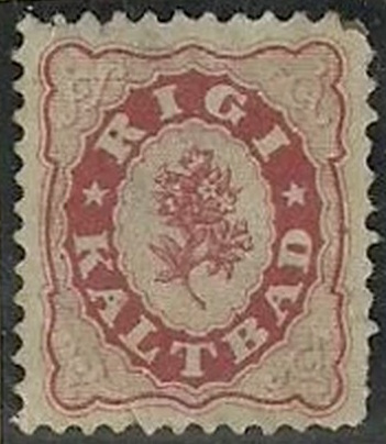 The world's first hotel stamp, Rigi Kaltbad, Switzerland, 1864.